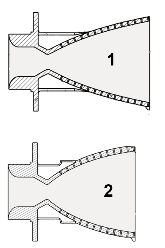 Cross sections of TIC (1) and PAR (2) rocket nozzles